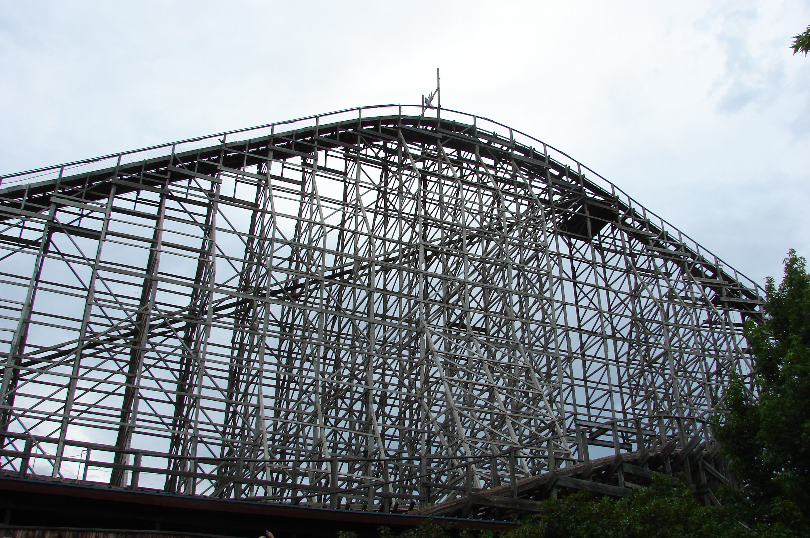 The Texas Giant roller coaster at Six Flags Over Texas in Arlington, Texas